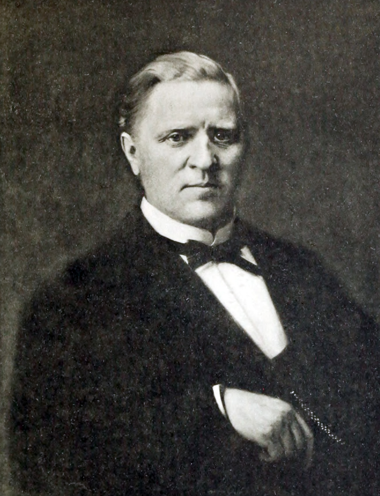 Adolf Kjellberg (1828-1884), Swedish pediatrician